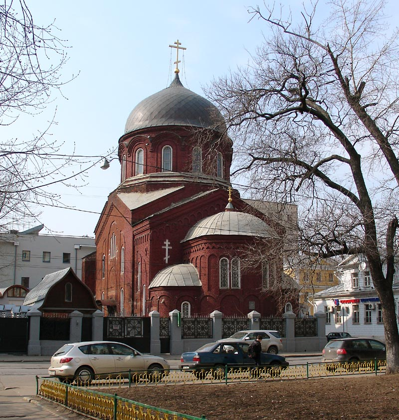 Moscow, Russia. Church of Intercession of Theotokos, Novokuznetskaya 38-1, of Old Believers Russian Old-Orthodox denomination (Русская Древлеправославная Церковь)